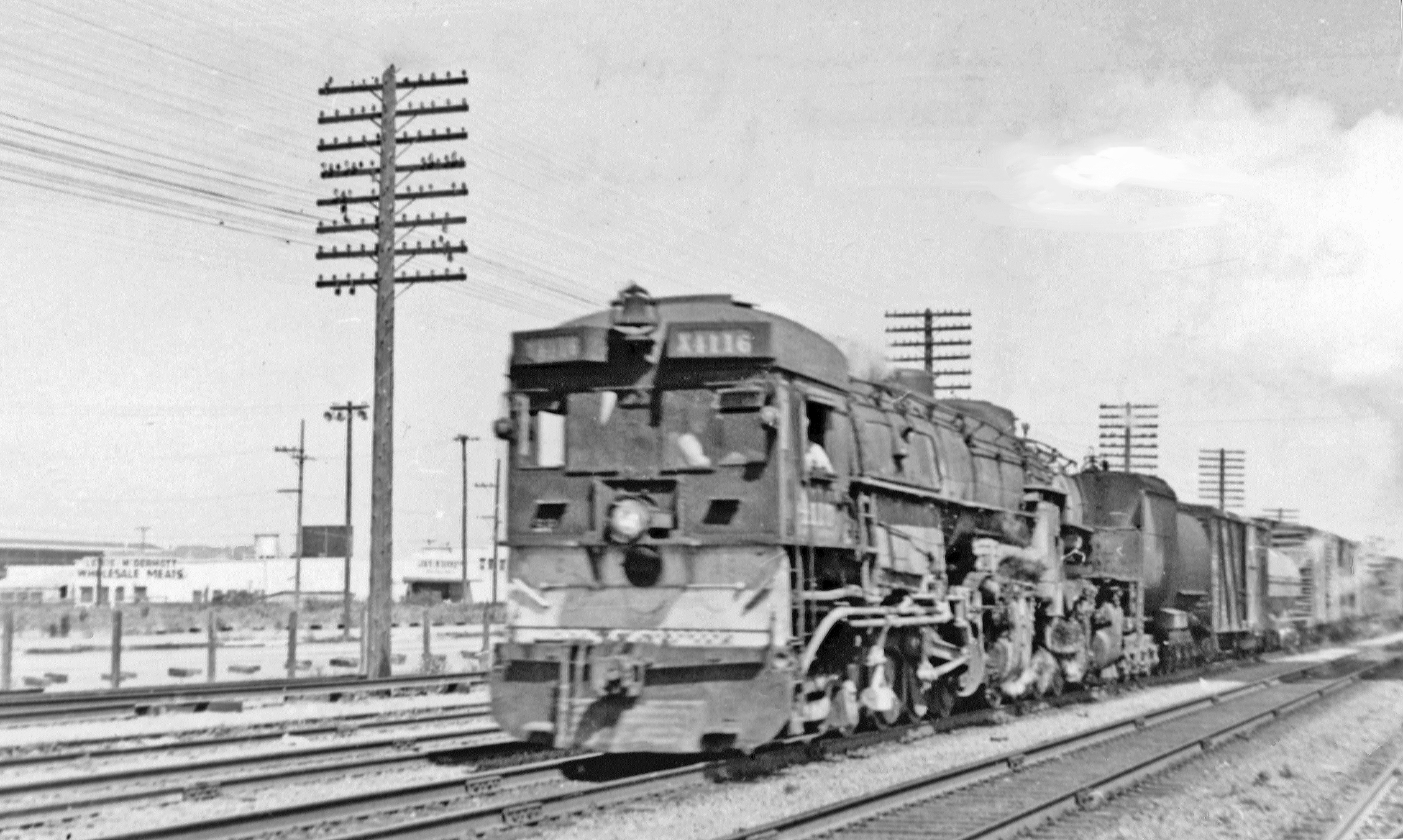 Southern Pacific cab-in-front 2-8-84 Mallet on freight passing Berkeley bound for Oakland (Calif.).